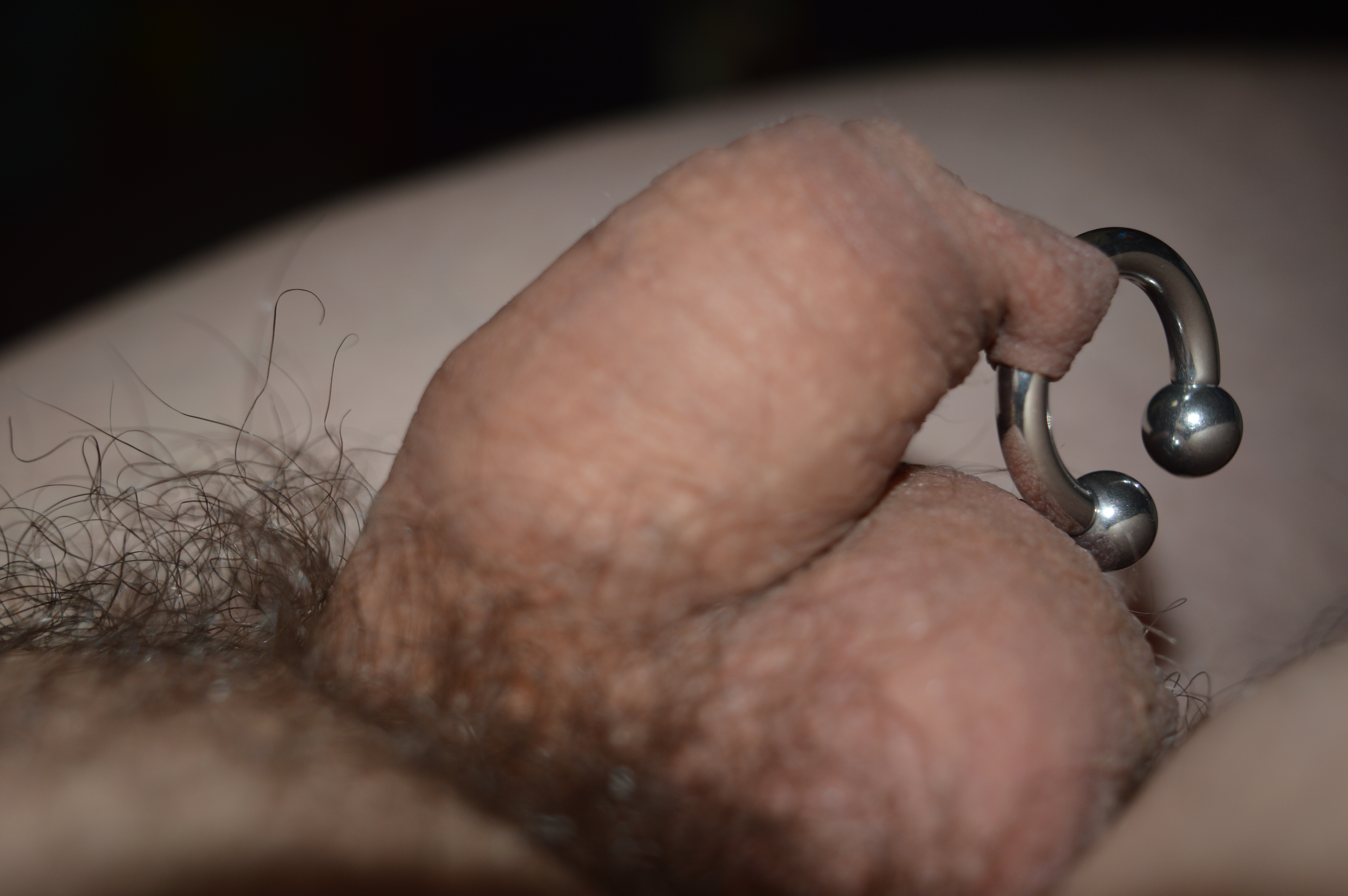 Male Penis Foreskin Piercing